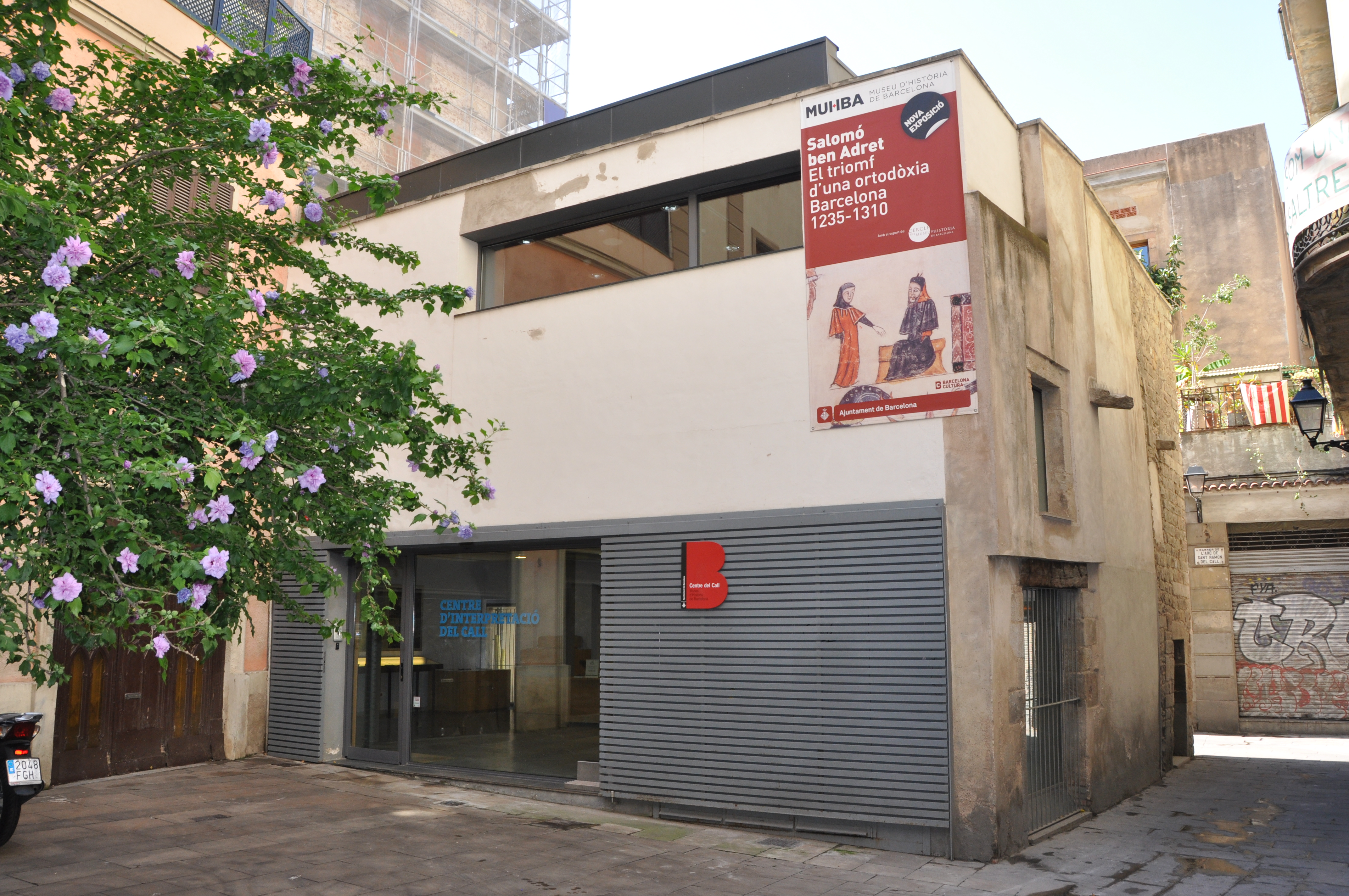 Center of The Jewish Quarter of Barcelona (Call). MUHBA